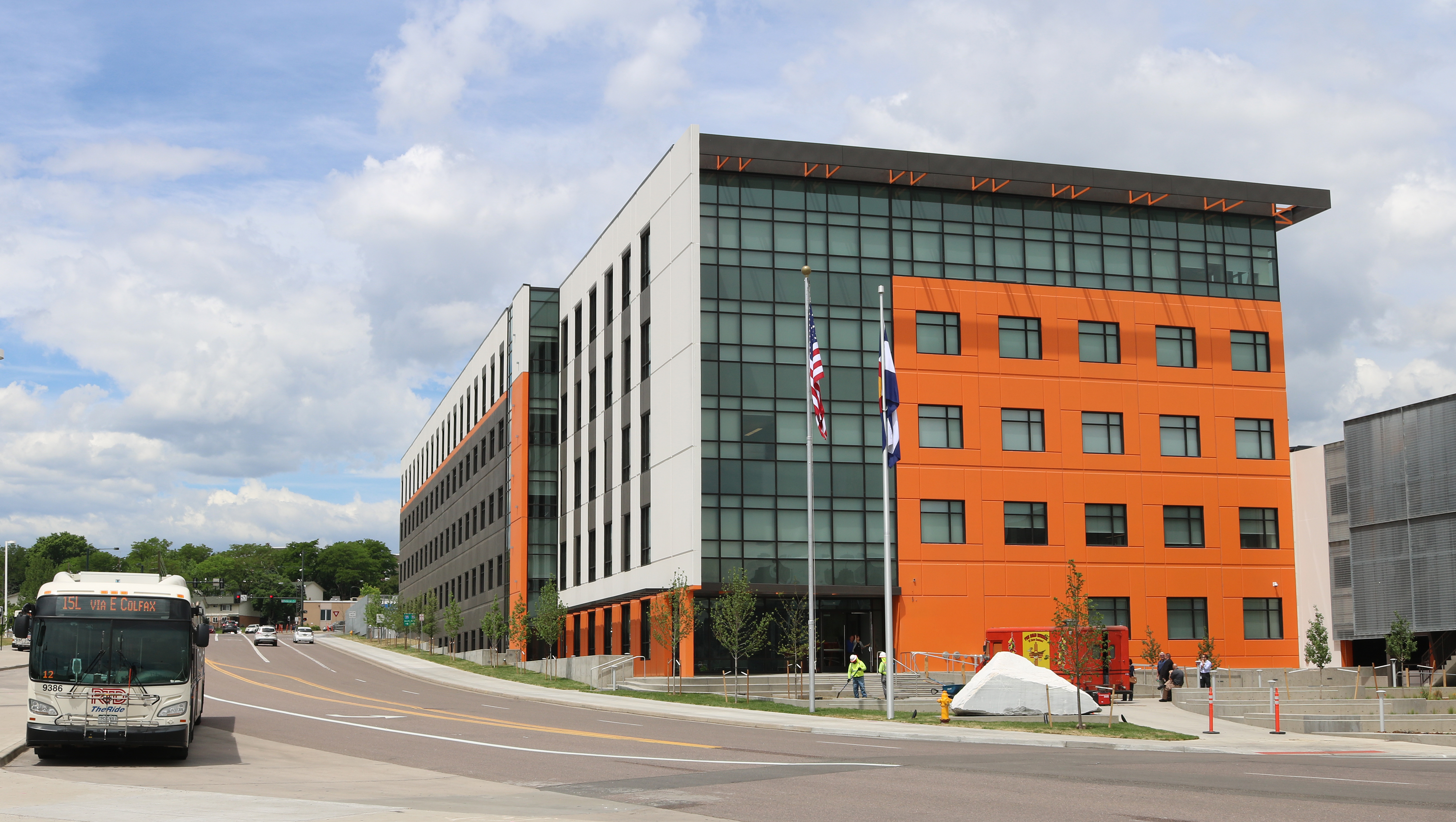 The headquarters building for the Colorado Department of Transportation. It is located at 2829 West Howard Place in Denver, Colorado, in Denver's Sun Valley neighborhood.